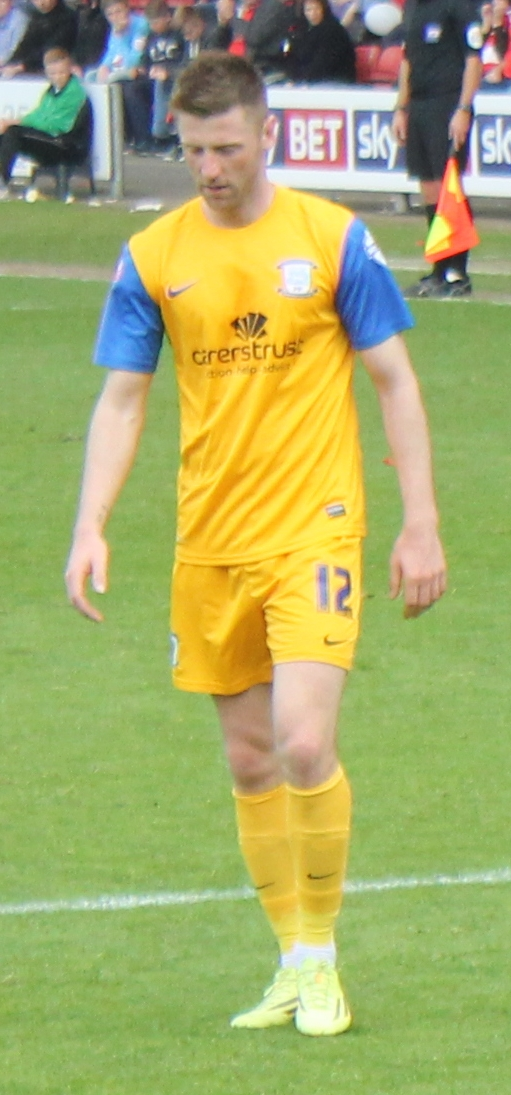 Paul Gallagher playing for Preston North End against Crewe Alexandra at Gresty Road, Crewe on 3 May 2014